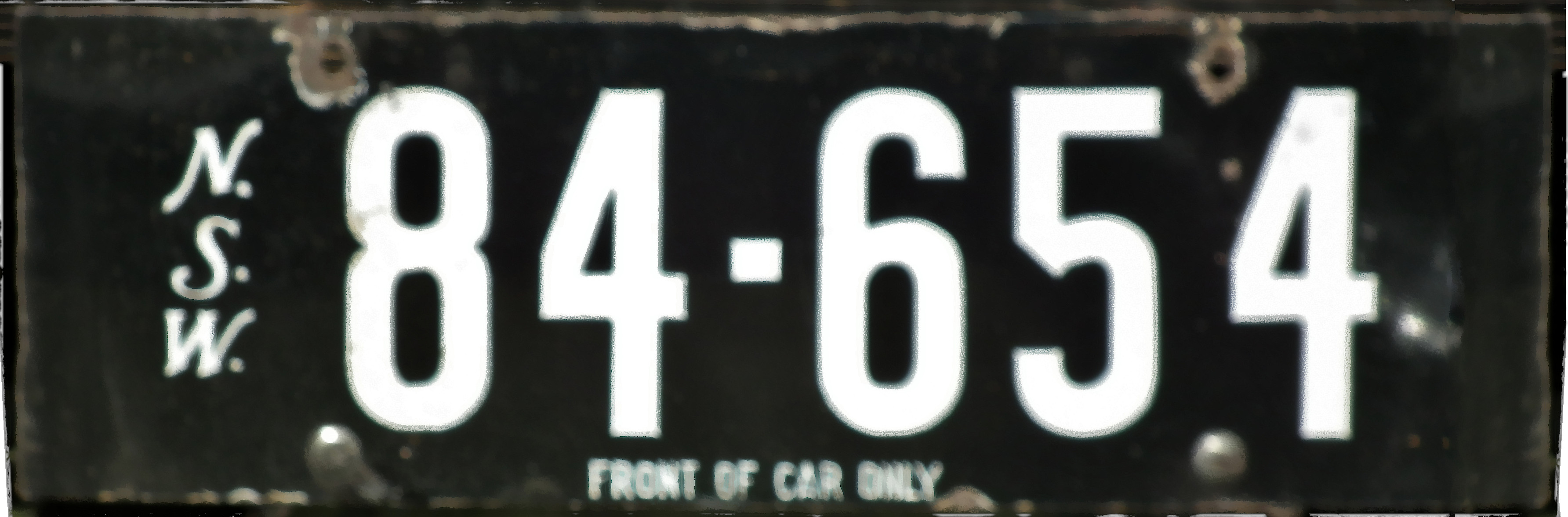 1924 New South Wales registration plate 84-654